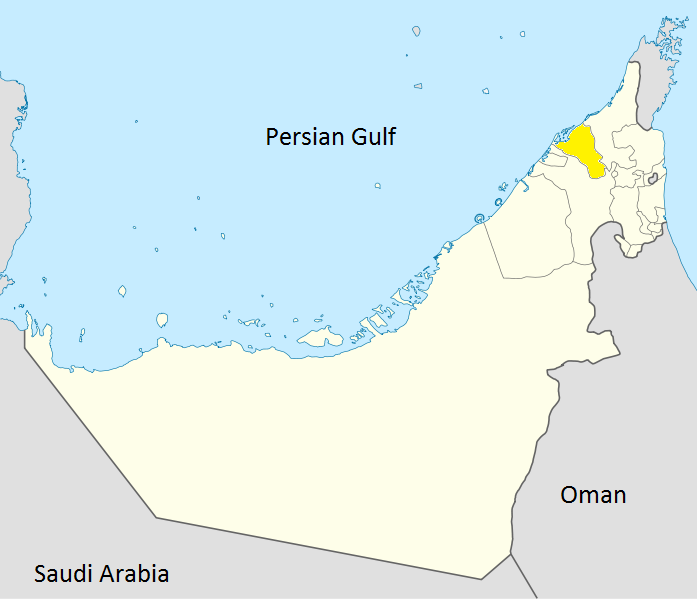 Map of Umm al-Qaiwain